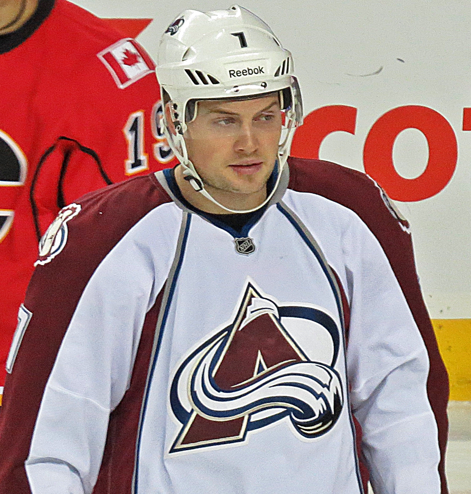 John Mitchell of the Colorado Avalanche during the 2013–14 season.